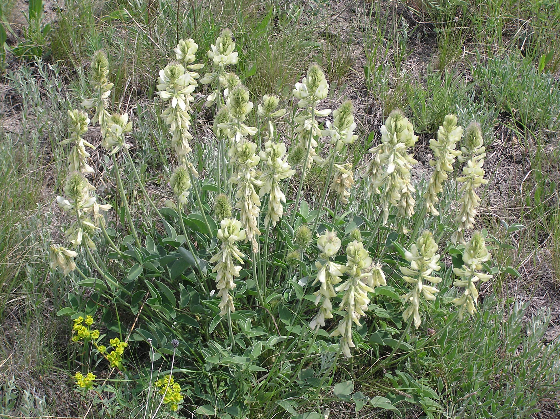 Hedysarum grandiflorum Pall. Habitat: southern chalk slope. Vicinity of Saratov city, Russia.